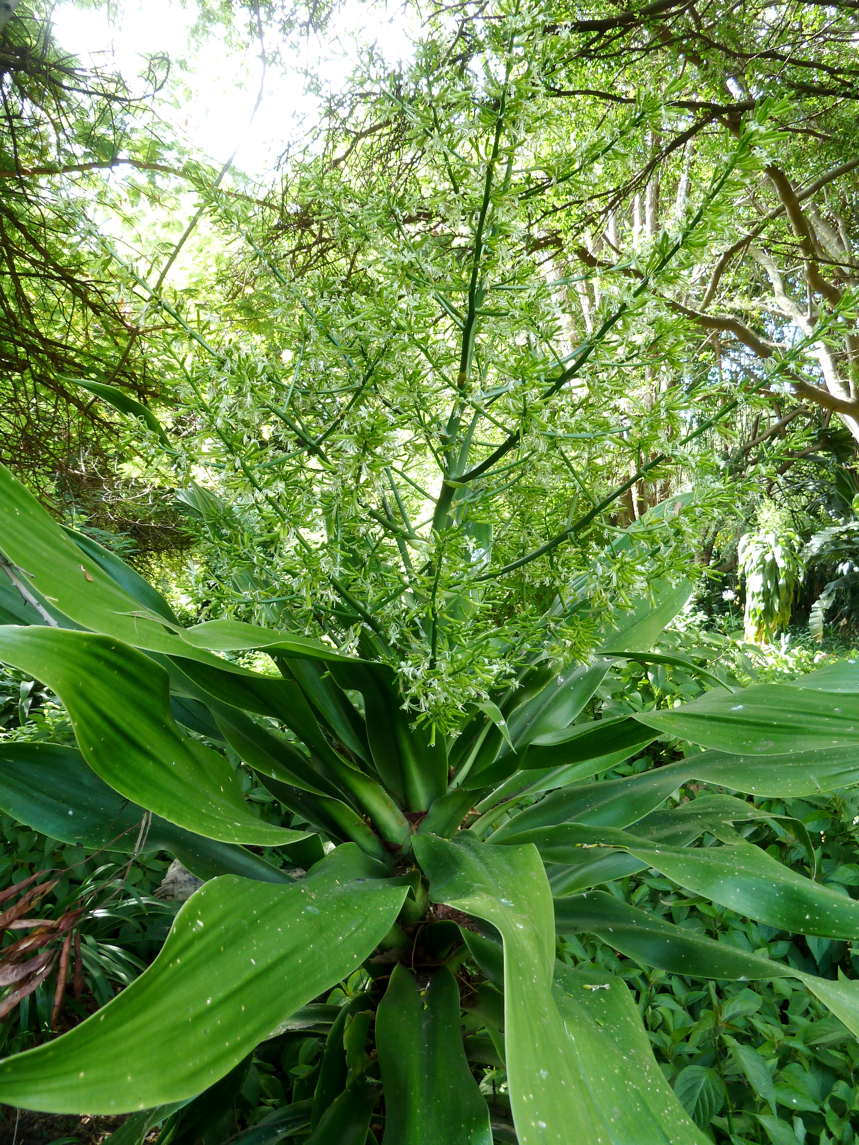 Inflorescence of Large-leaved dragon-tree in Springbok Park, Pretoria